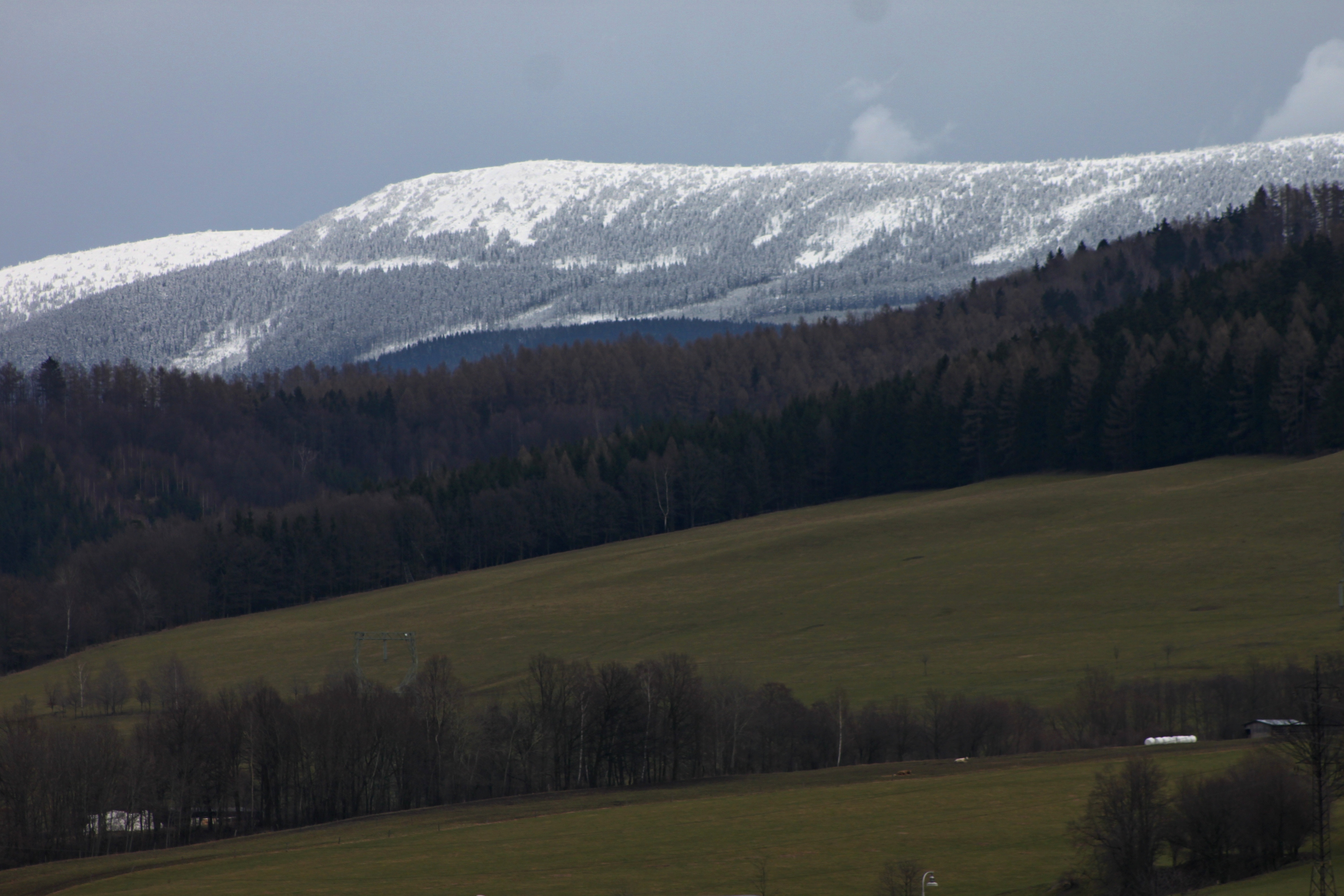 Bridlicna from Petrov nad Desnou.